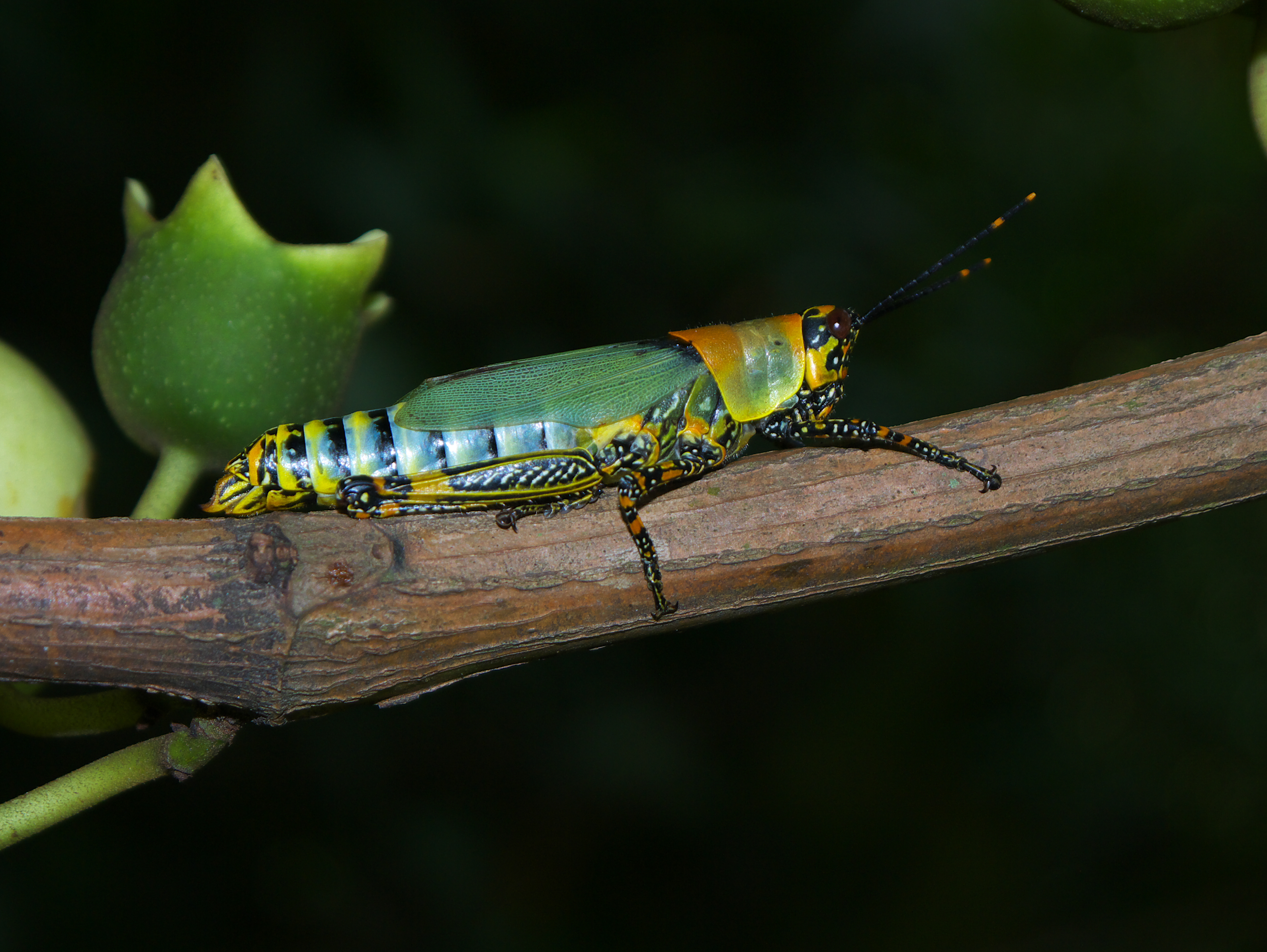 Zonocerus variegatus (Congo Harlequin Locust), Democratic Republic of Congo